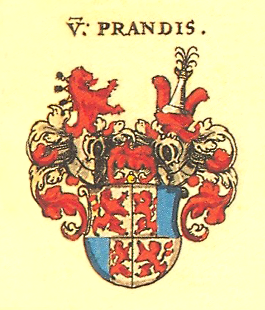 Coats of Arms of Brandis (Prandis), Tyrol, Austria